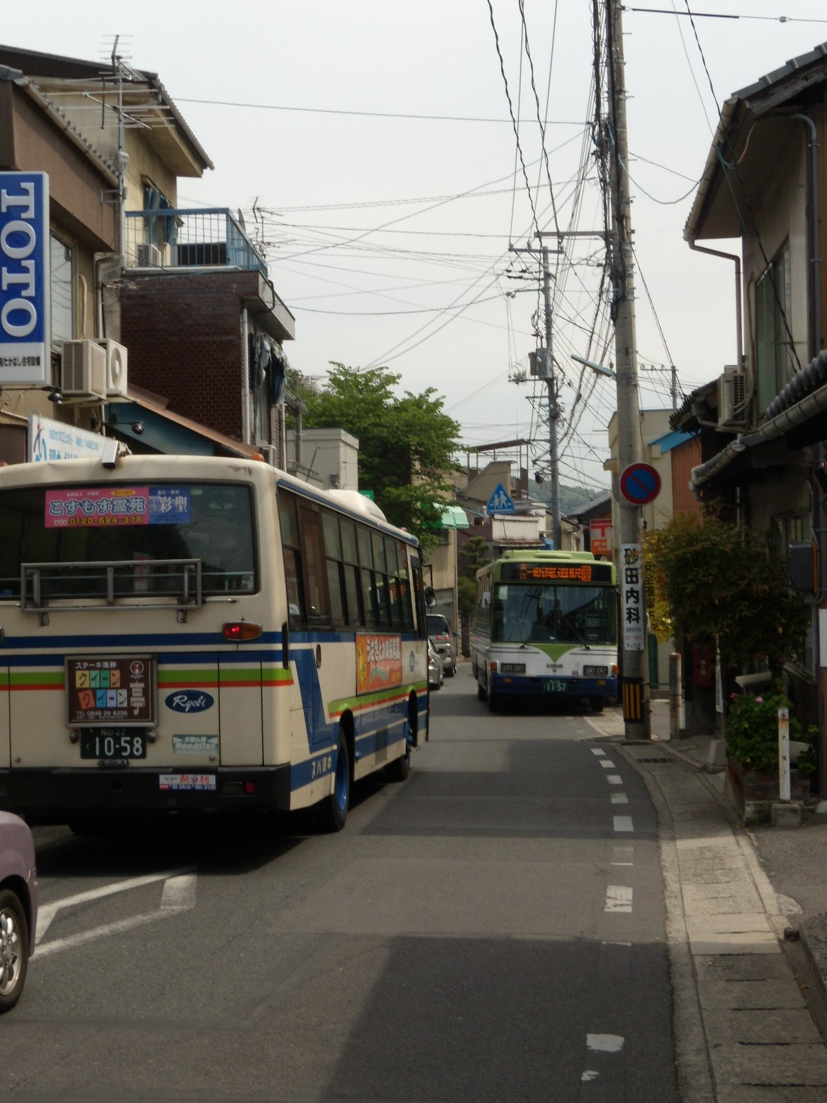 Onomichi bus and Chugoku bus in Onomichi city Nagae 2 Chome